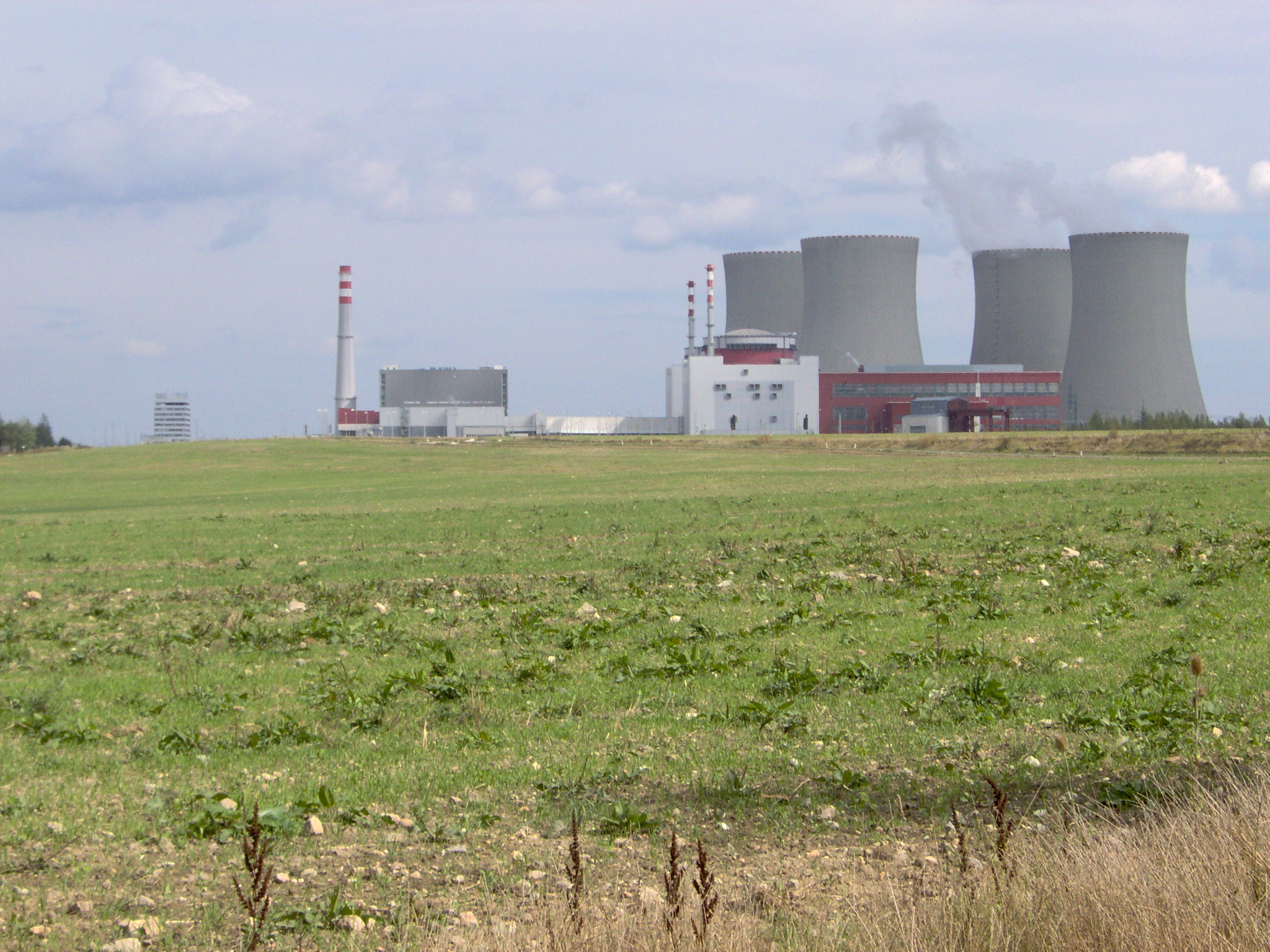 View of Temelín Nuclear Power Station|.